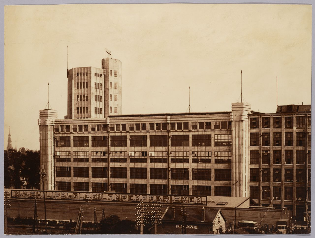 Gloeilampenfabriek Philips, Eindhoven, 1927-1929. Architect: D. Roosenburg. Fotograaf: onbekend. Collectie NAi / TENT_o252 URL van deze afbeelding: Meer foto's uit deze collectie kunt u bekijken in de Collectiedatabase van het NAi. Niet van alle gebouwen en interieurs zijn alle gegevens bekend. Heeft u meer informatie of weet u het adres van een gebouw? Laat dan een reactie achter (als u ingelogd bent bij Flickr) of stuur een mailtje naar: Al deze foto's zijn gemaakt in de eerste helft van de twintigste eeuw. Wij zijn benieuwd hoe deze gebouwen er vandaag de dag uitzien. Heeft u recente foto's van deze gebouwen of locaties, voeg ze dan toe als commentaar. U kunt een eigen Flickr-foto toevoegen door de URL ervan tussen vierkante haken in het commentaarveld te plakken. Als uw foto's een Creative Commons licentie hebben, nemen we ze bovendien graag op in de NAi Collectiedatabase. Philips Light Bulb Factory, Eindhoven, 1927-1929. Architect: D. Roosenburg. Photographer: unknown. NAI Collection / TENT_o252 Persistent URL: For more photographs from this collection, please visit the NAI Collection Database You can help us gain more knowledge on the content of our collection by adding a comment with information. If you do not wish to log in, you can write an e-mail to: All these pictures are taken in the first half of the twentieth century. We are curious to learn how these buildings look like today. If you have recently taken photographs of these buildings or locations, please add them to your comment. If you'd like to include a Flickr photo, simply copy and paste its URL between square brackets in the commentary-field. Photos with a Creative Commons licence may be used to illustrate the NAi Collection Database.